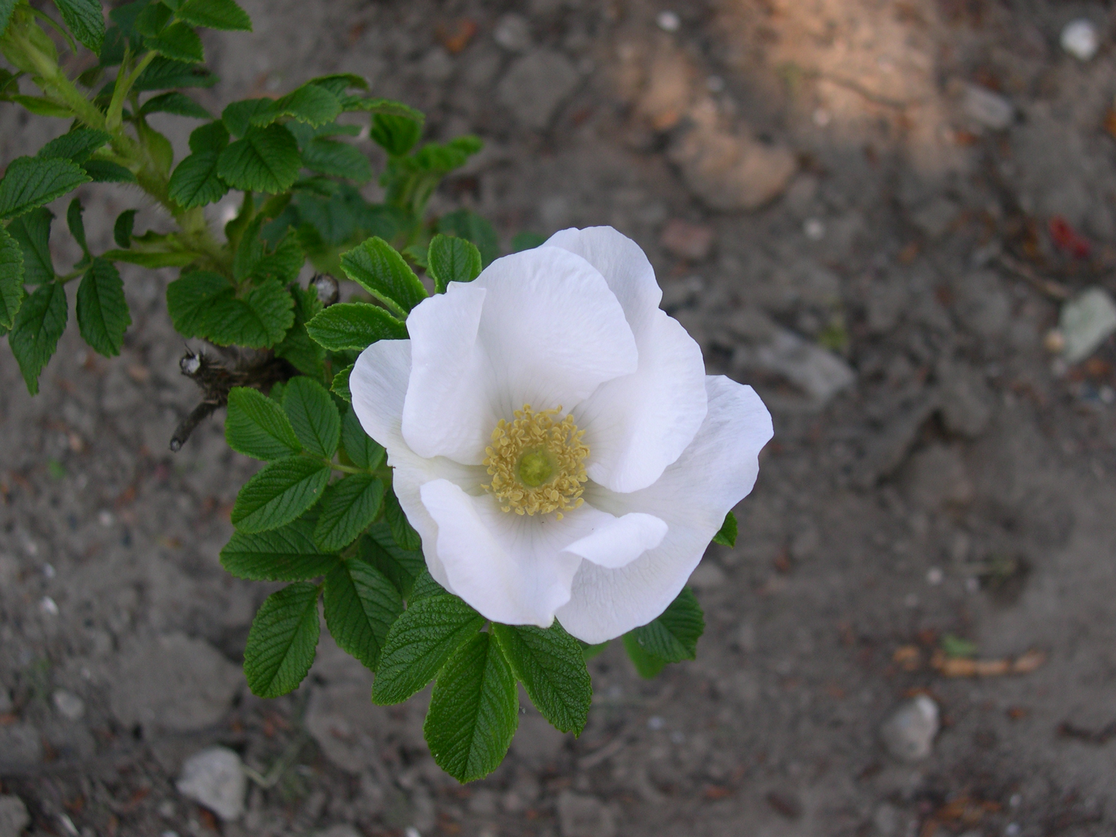 Rosa rugosa along A.van Stolkweg in Rotterdam Picture taken by Magalhães on June 10th 2006